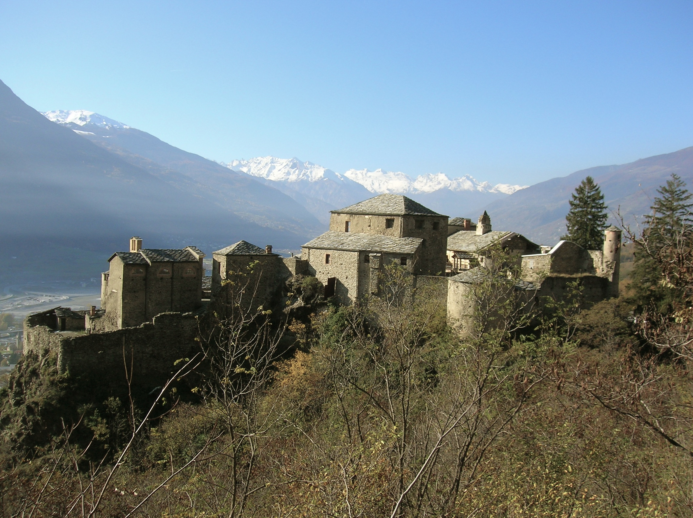 Quart Castle, in Quart, Aosta Valley, Italy.